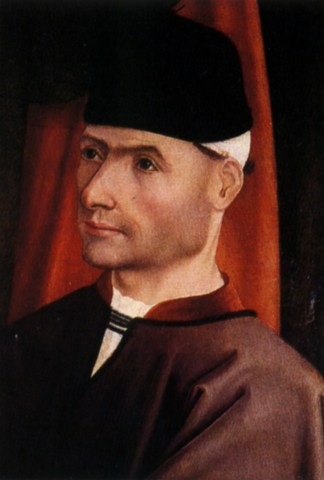 Jean Dunois. 15th century painting